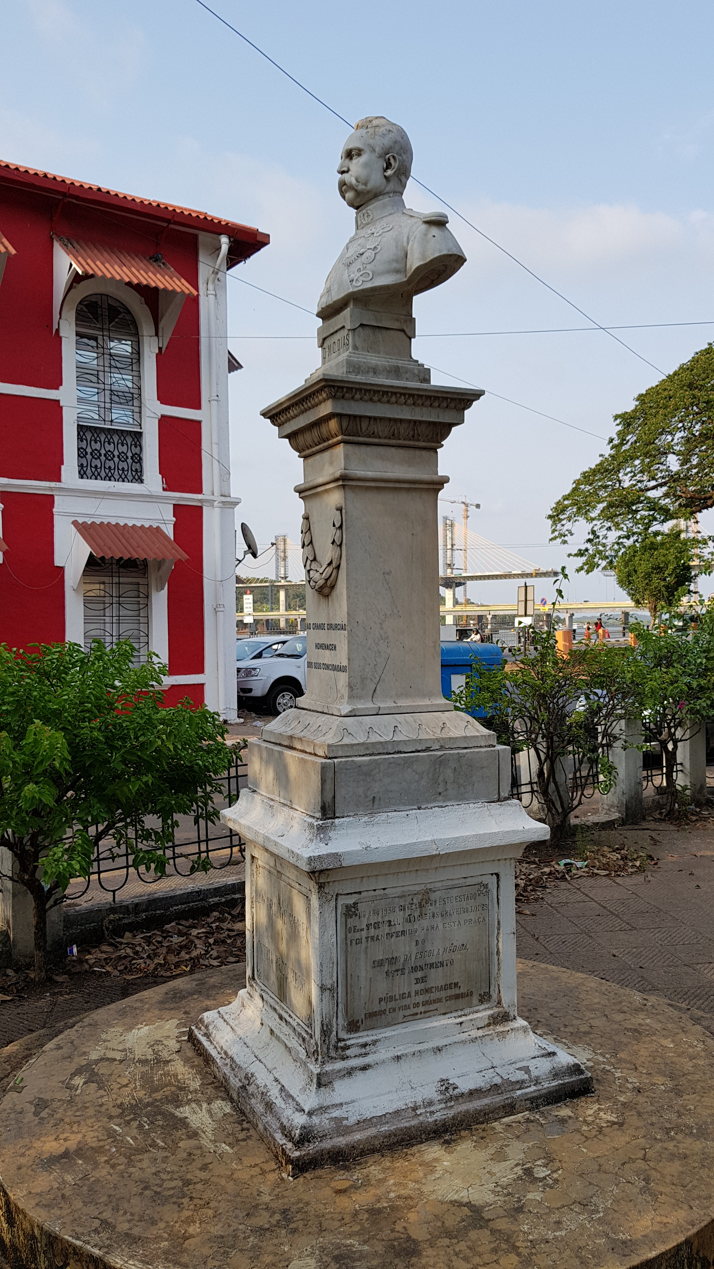 Miguel Caetano Dias Statue